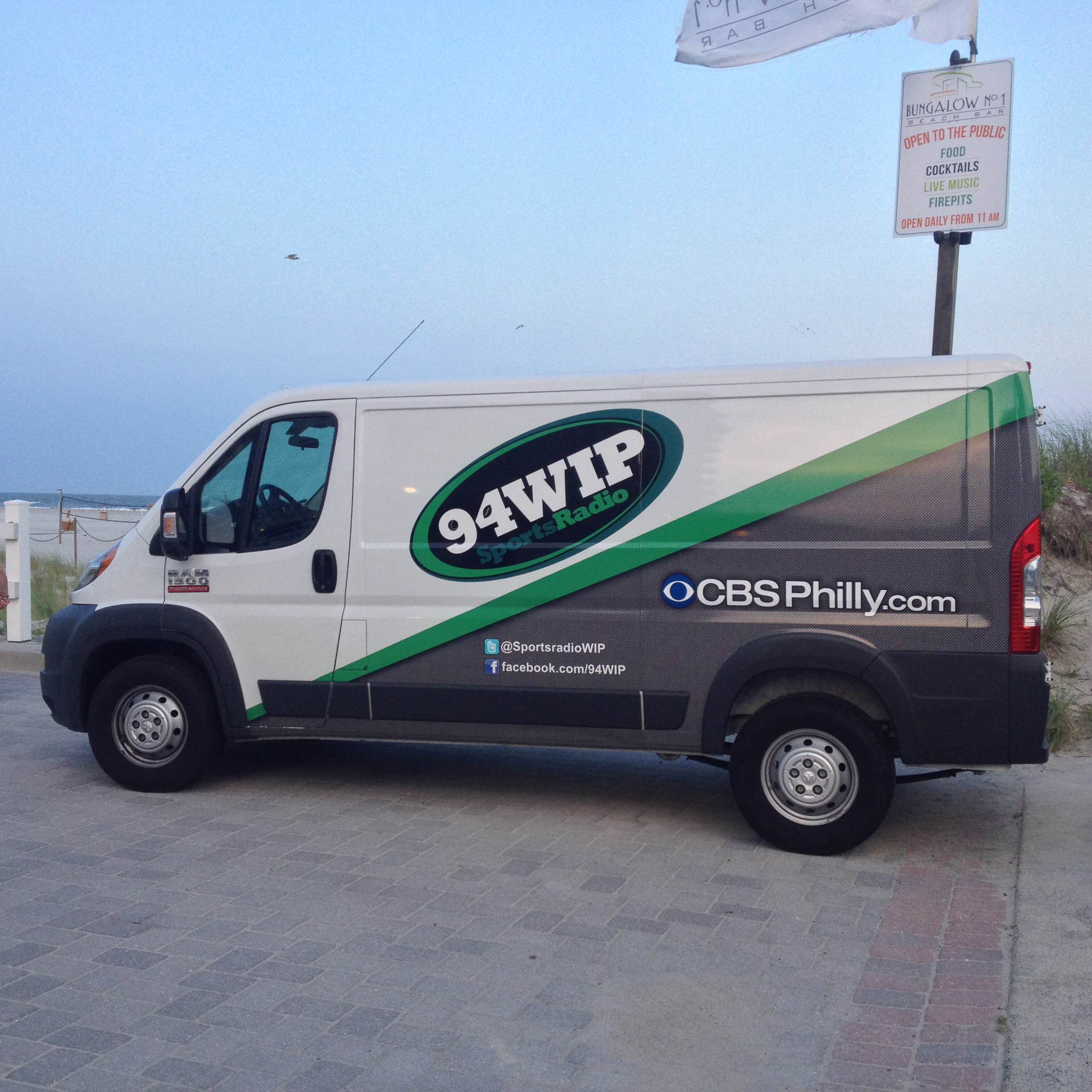 A 94 WIP-FM van parked near Diamond Beach in Wildwood Crest the evening of July 18, 2015, during an event taking place on the beach at which WIP-FM was present. This photo was created by Luigi Novi. It is not in the public domain, and use of this file outside of the licensing terms is a copyright violation.